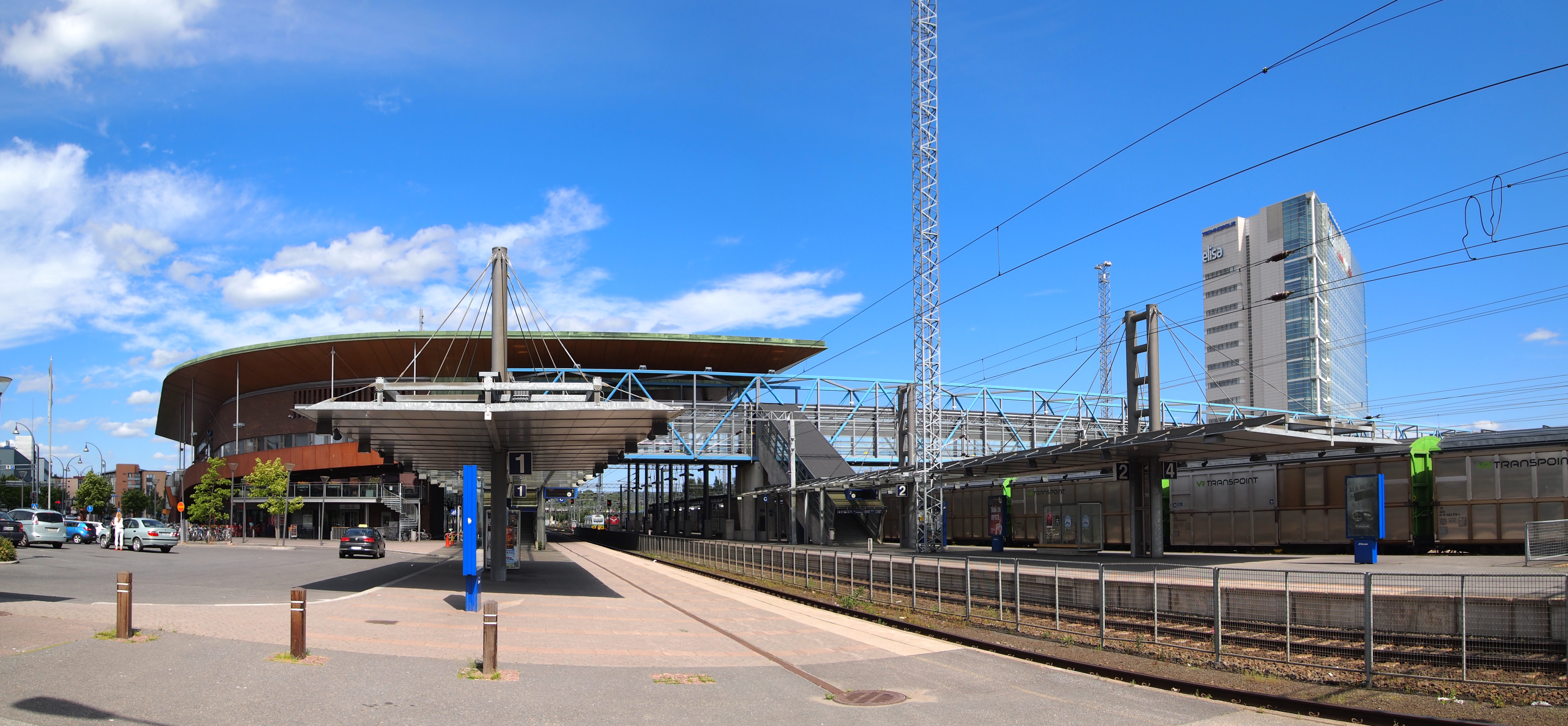 Travel centre of Jyväskylä.